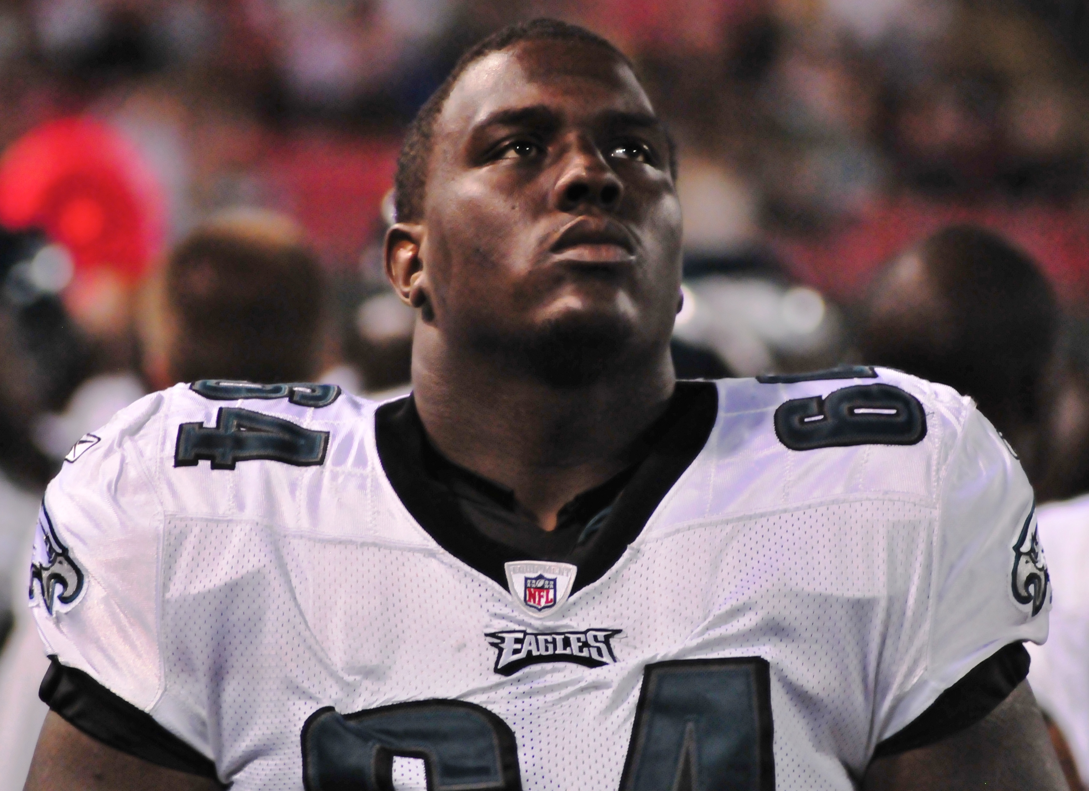 Willie Williams during the preseason game against the Jets on September 3, 2009.